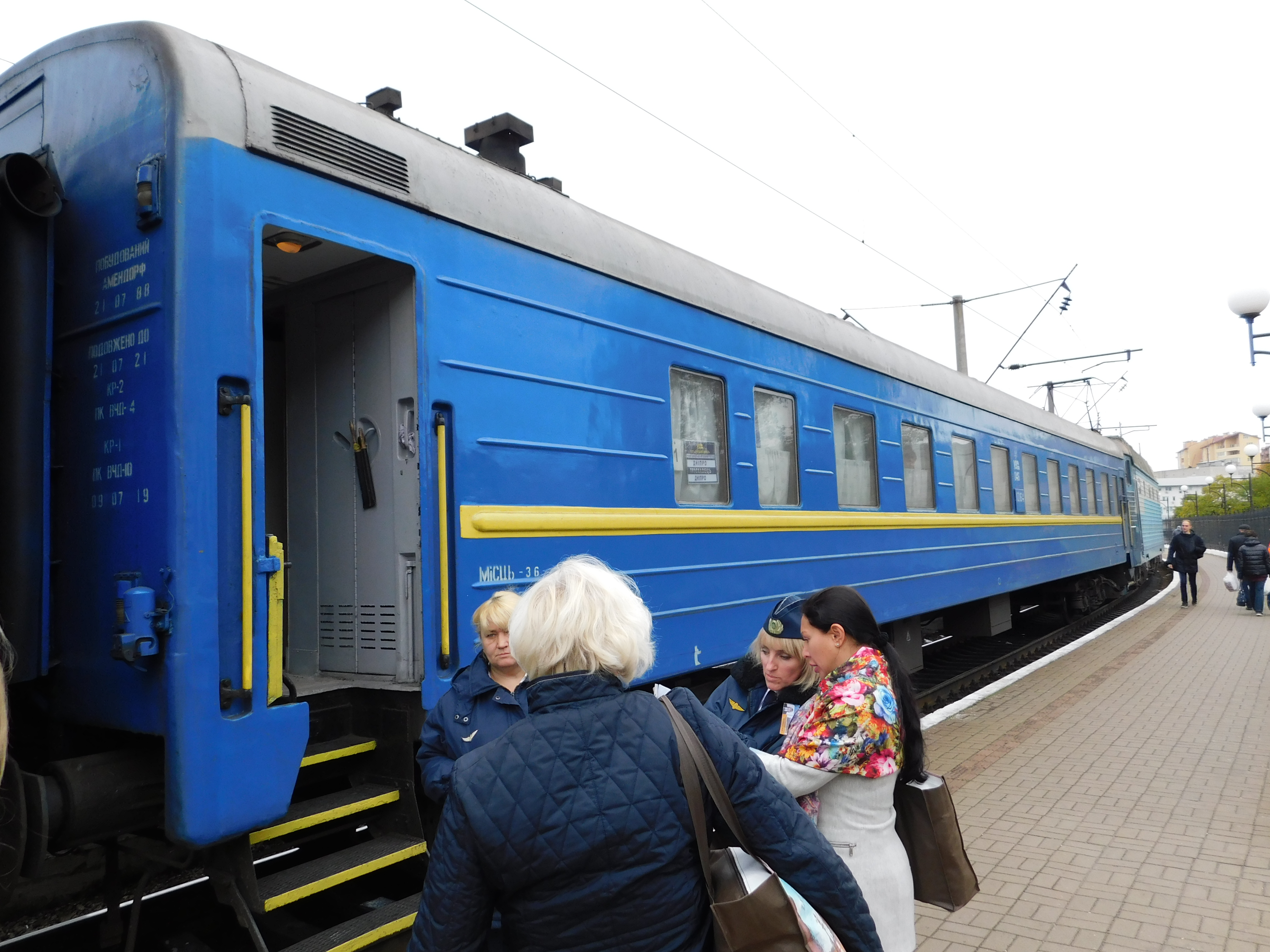 Passenger sleeping carriage 12164 at Lviv station; 09.10.19